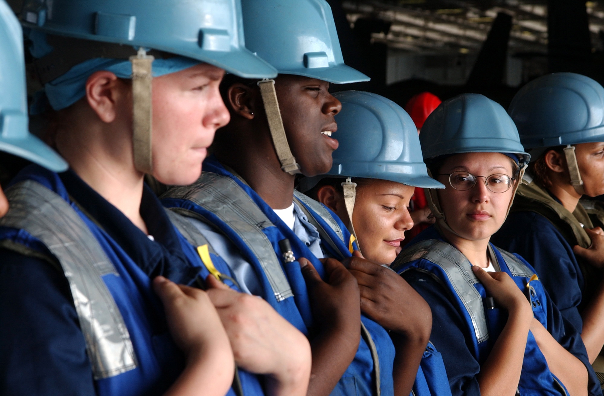 At sea aboard USS John C. Stennis (CVN 74) Dec. 17, 2001 -- A team of sailors from USS John C. Stennis prepares for an underway replenishment with USS Bridge (AOE 10). Stennis and her battle group are supporting Operation Enduring Freedom.